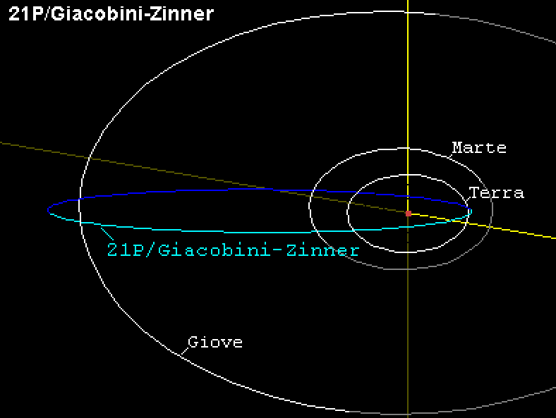 Part of the orbit of the comet 21P/Giacobini-Zinner